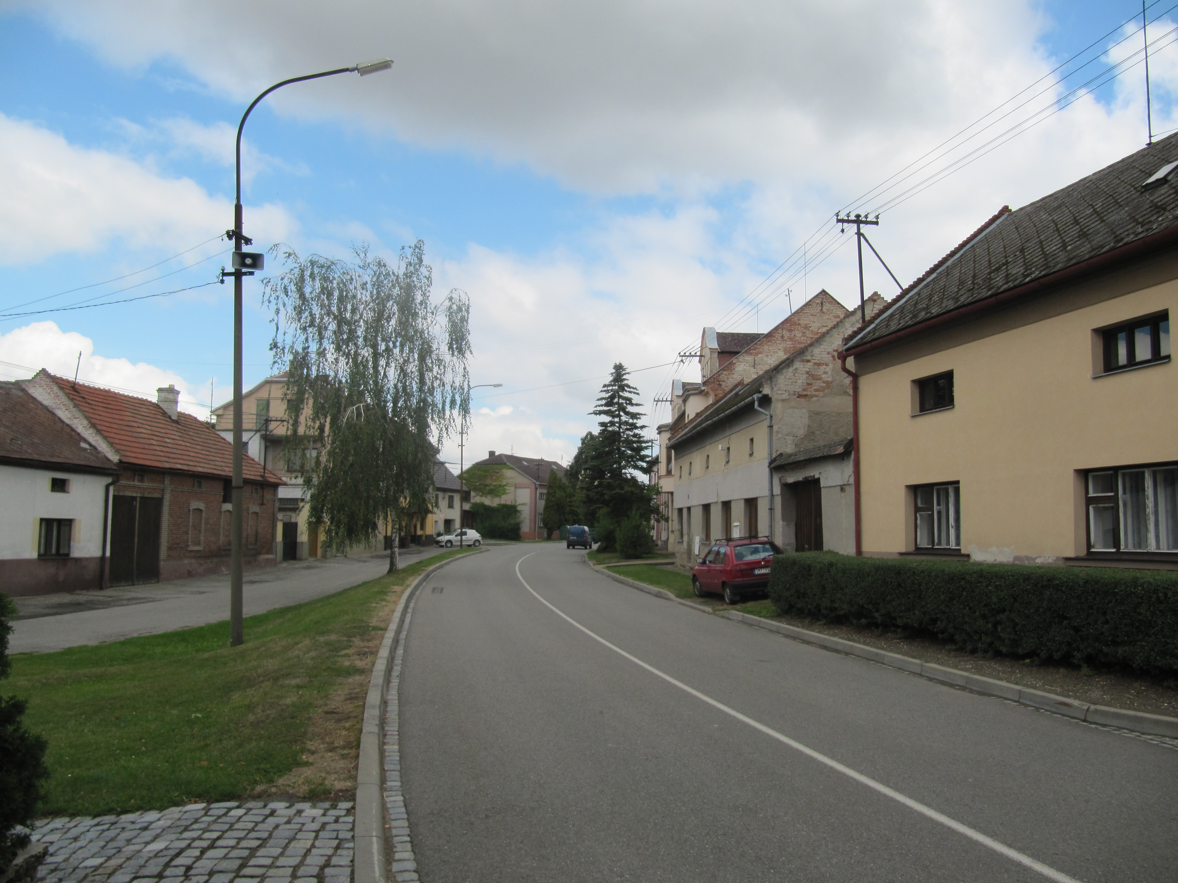 Měrovice nad Hanou, Přerov District, Czech Republic.